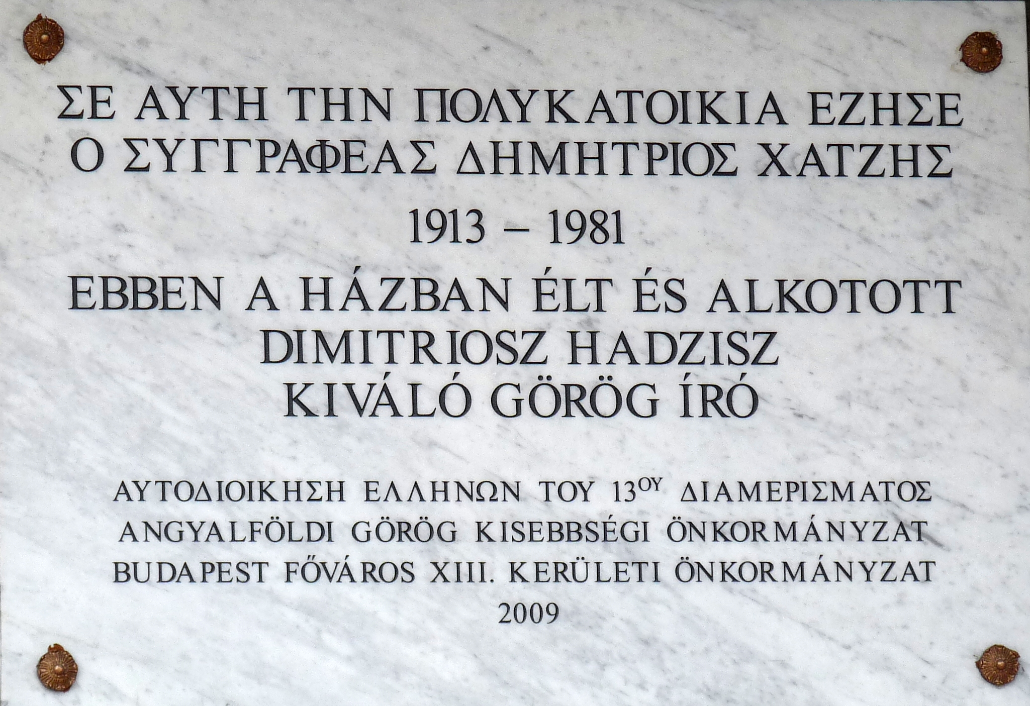 Commemorative plaque to Mr. Dimitris Hatzis (1913-1981) Greek writer, placed on his former domicile in Budapest by the Municipality of the Greek Minority in Angyalföld, May 9, 2009. (Budapest, District XIII, Váci Avenue Nr 132).